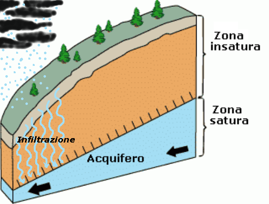 Cross-section of hillslope depicting vadose zone, aquifer and infiltration process. Source: USGS URL